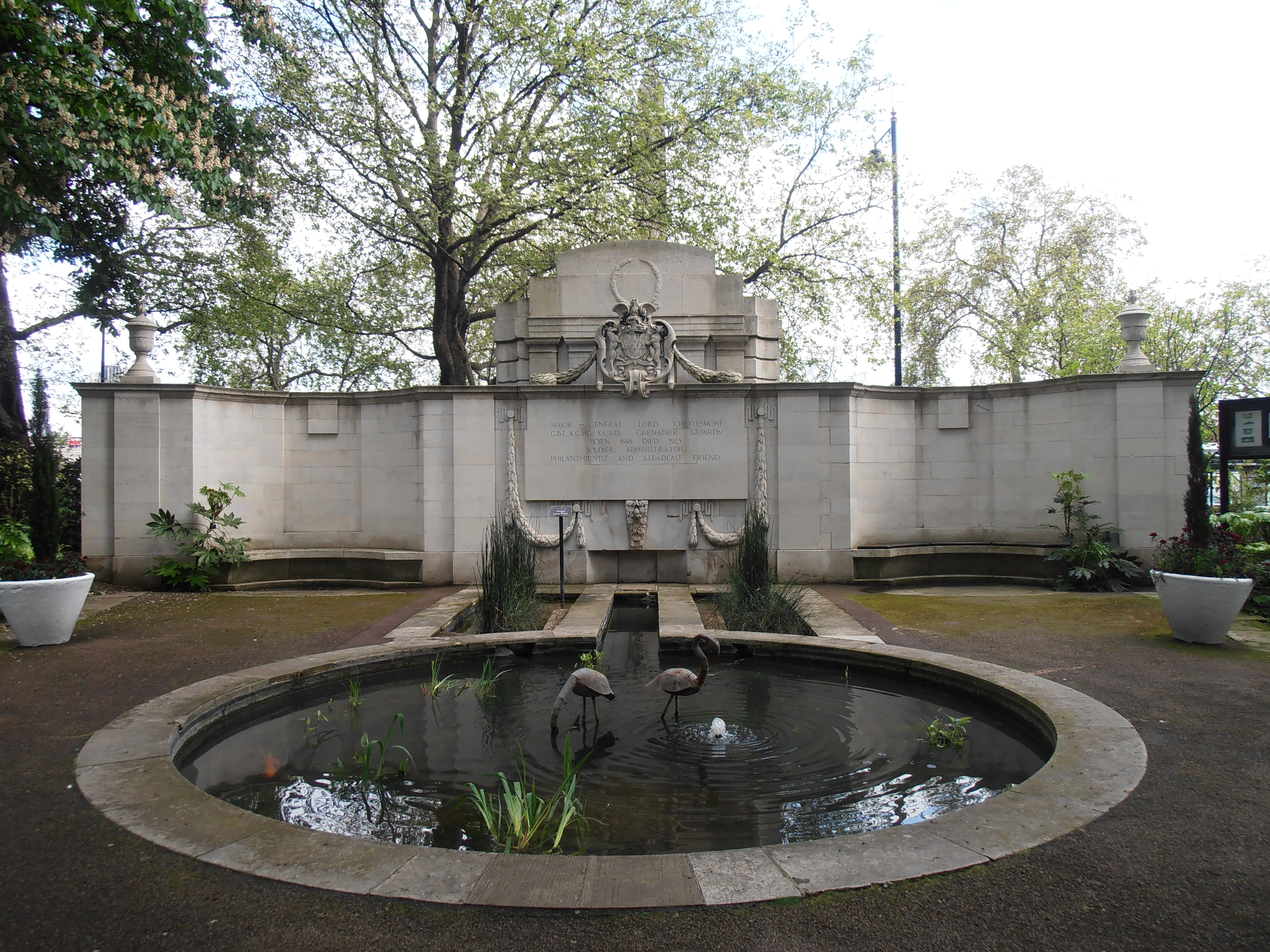 Memorial to Major-General Herbert Eaton, 3rd Baron Cheylesmore (1930) by Sir Edwin Lutyens, Victoria Embankment Gardens, London